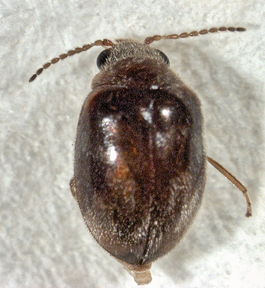 adult male Cyphon princeps, body length about 2.8 mm